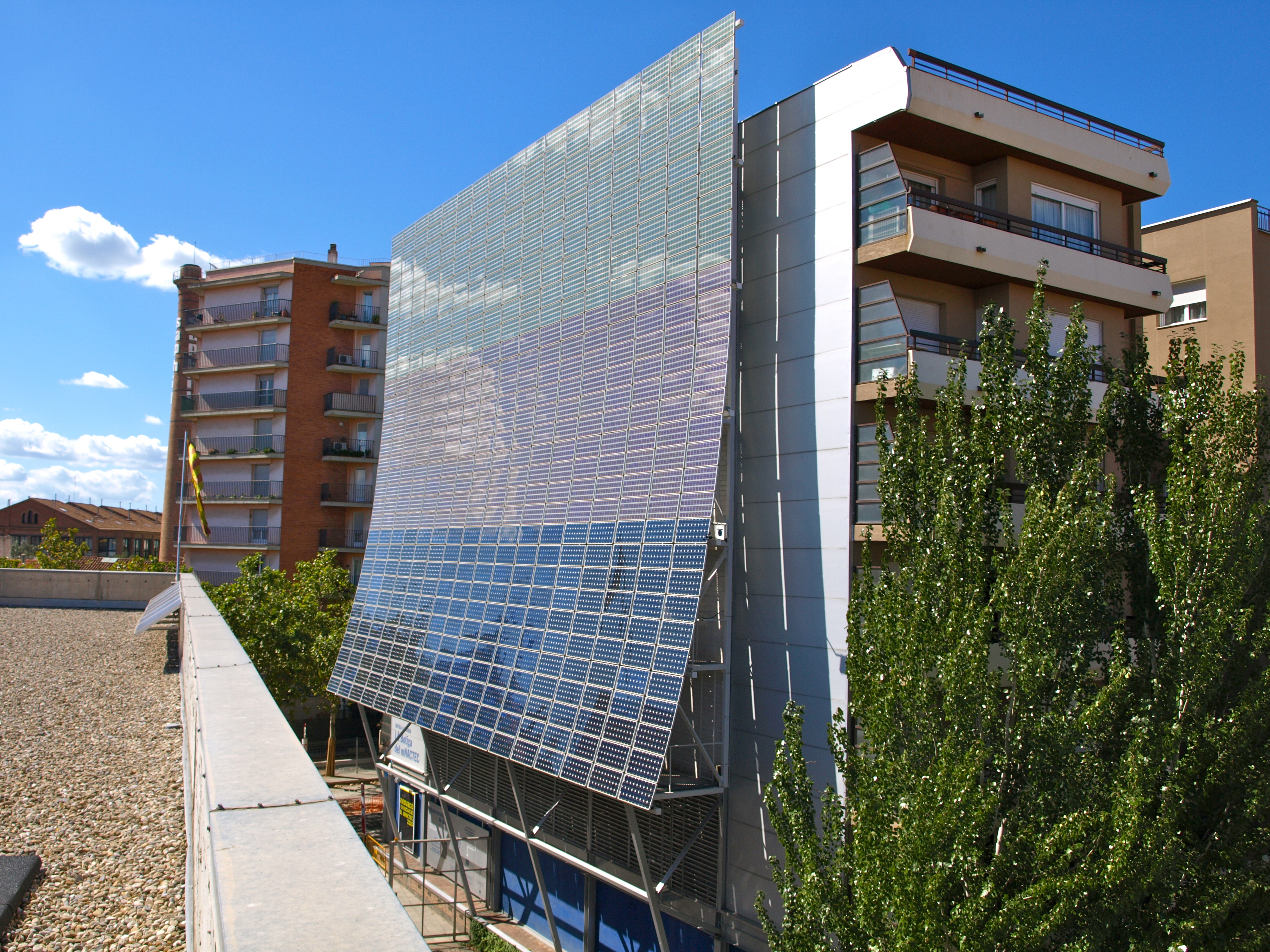 Photovoltaic wall at MNACTEC Terrassa